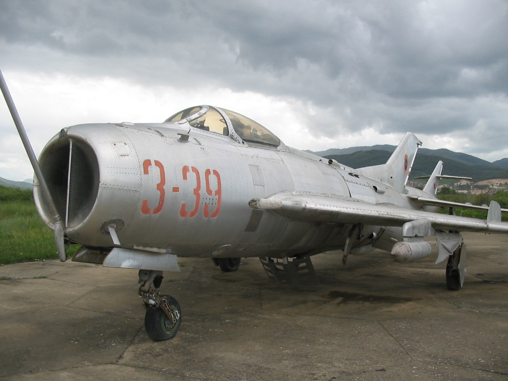 A Shenyang J-6C in Kucova Airbase, in perfect flying conditions.